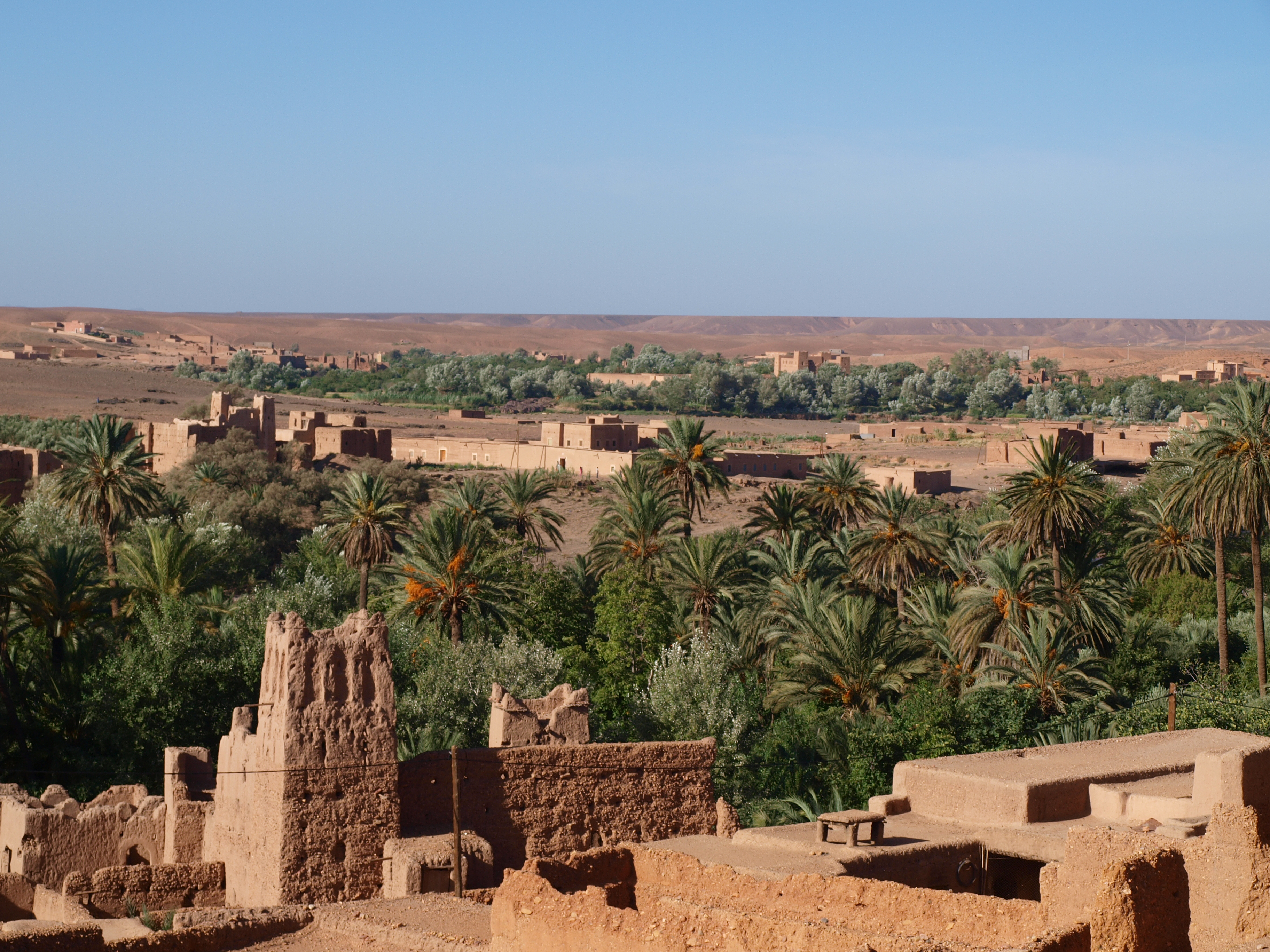 Typical landscape in Imassine.